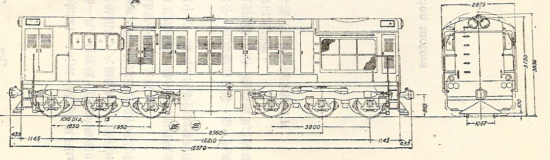 Hitachi 1650PS